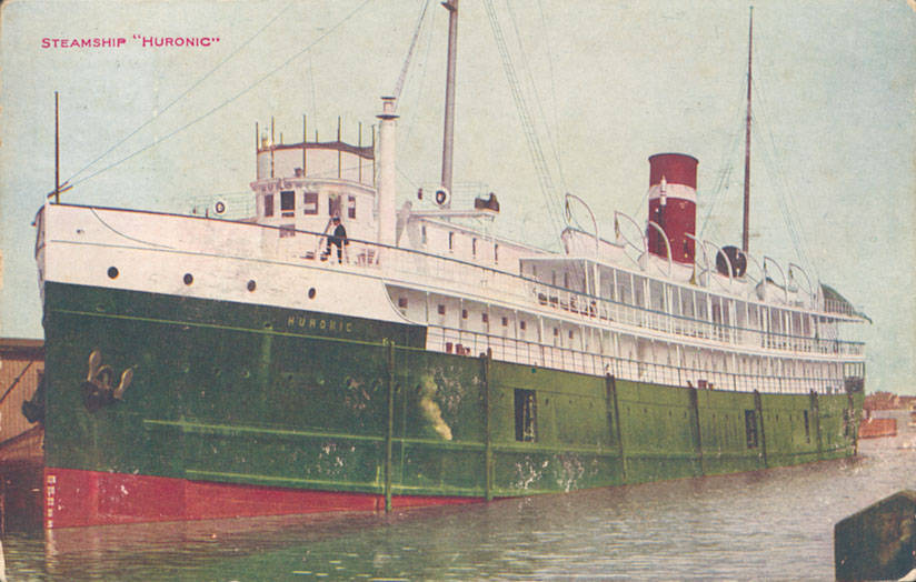 Postcard view of a steamship.